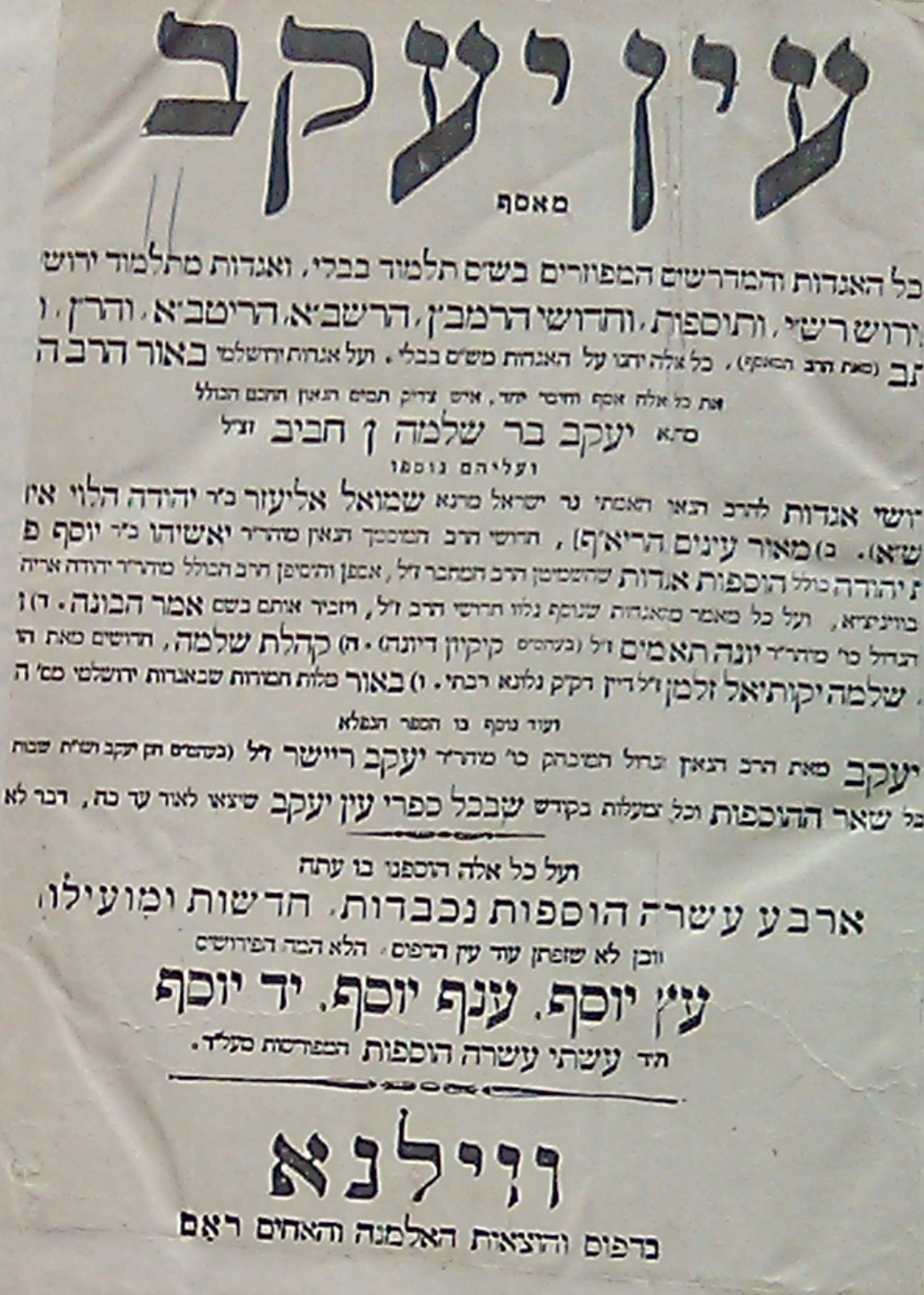 title page of עין יעקב , Vilnius edition